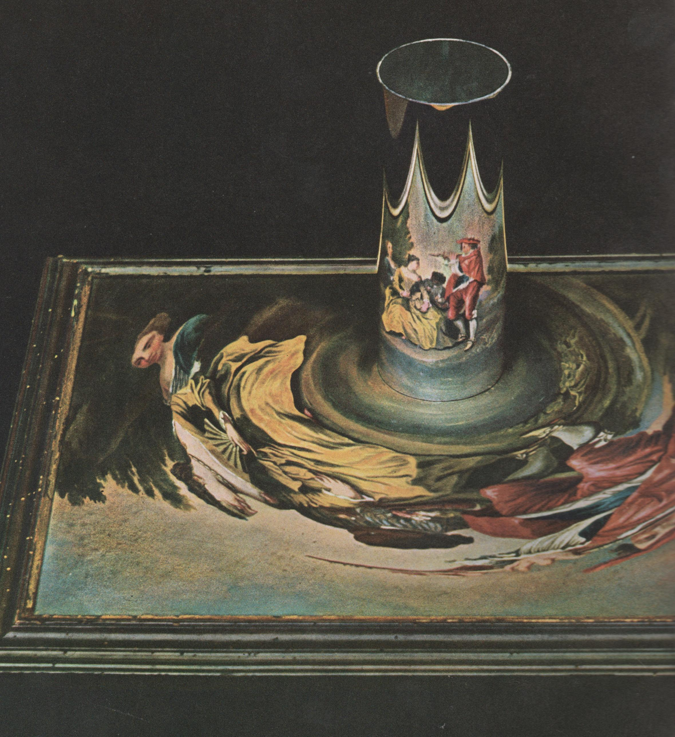 anamorfosis